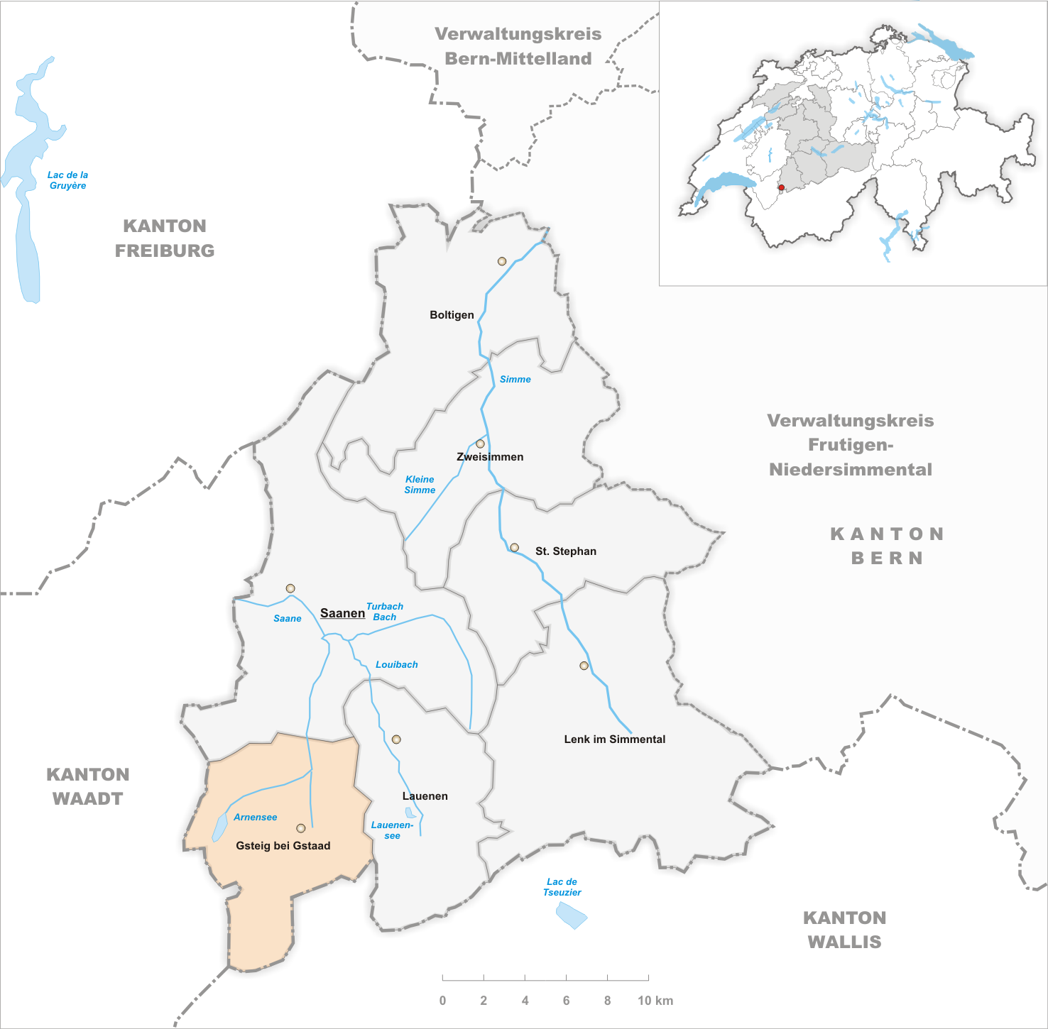 Municipality Gsteig bei Gstaad